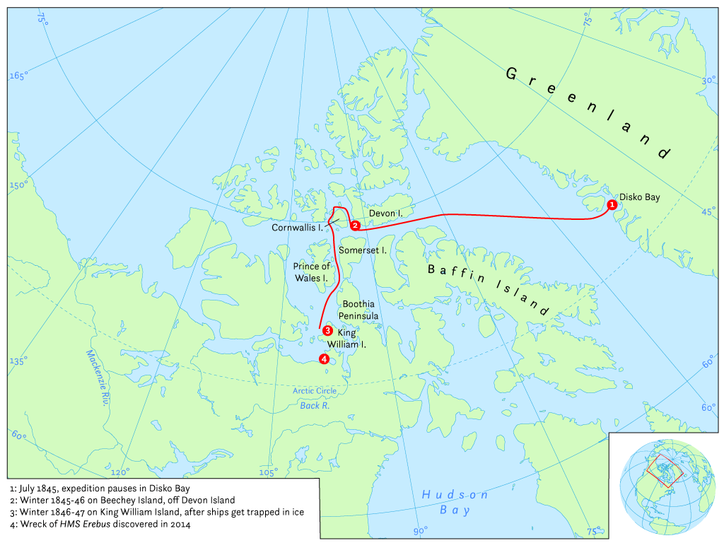 Data sources: Natural Earth Projection: Stereographic projection, central meridian 100W, latitude of origin 90N